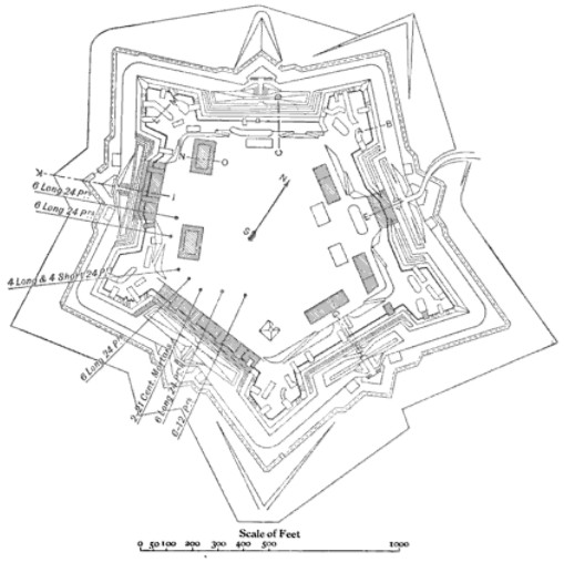 Plan of Fort Issy, outside Paris, France, as of 1870